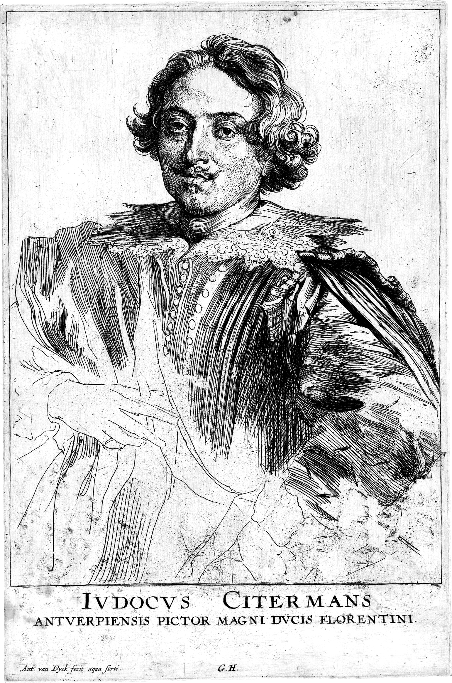 Justus Sustermans etching and engraving 25,2 x 16,7 cm 1630 - 1646